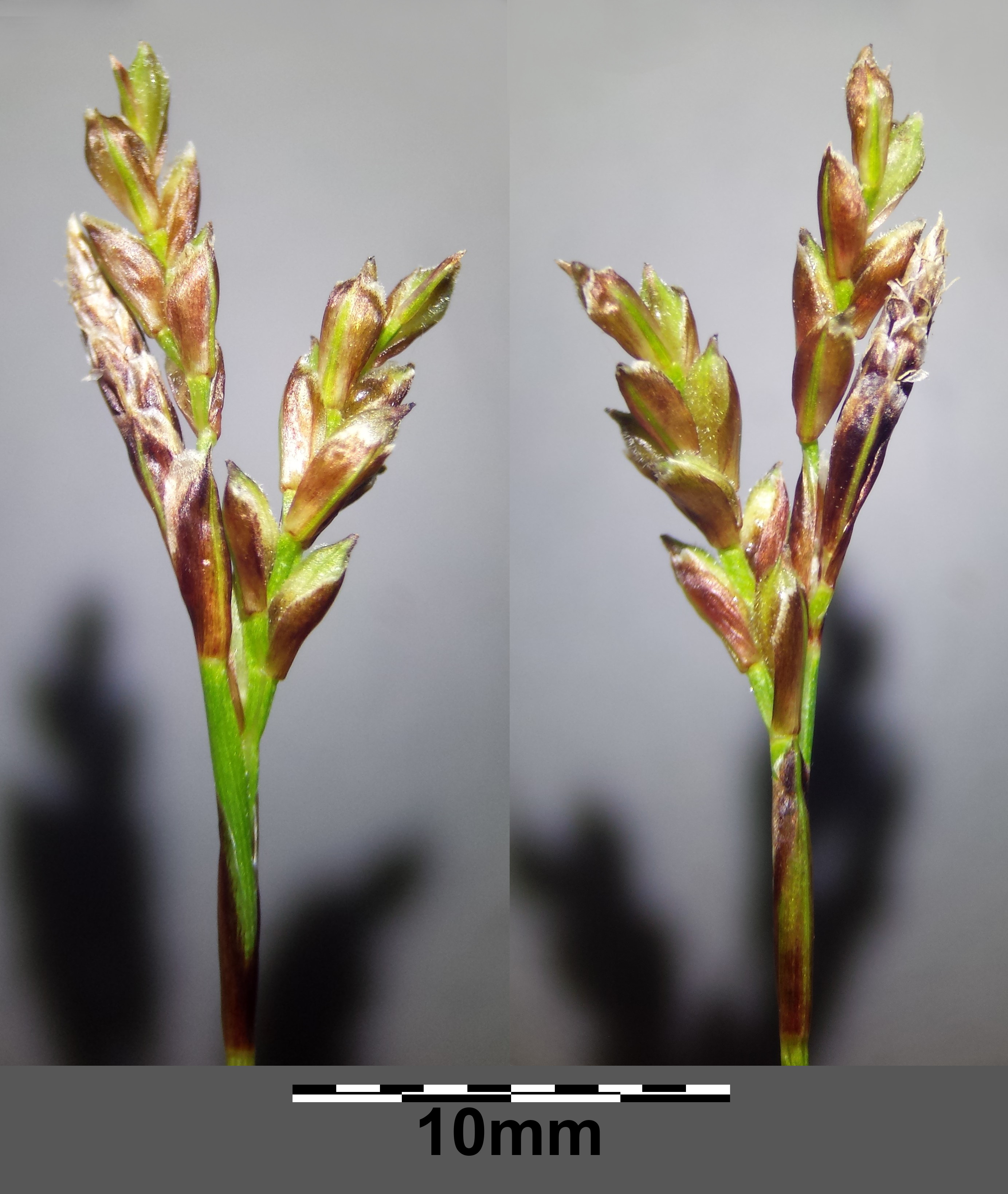 Inflorescence with 1 ♂ spike and several ♀ spikes Taxonym: Carex digitata ss Fischer et al. EfÖLS 2008 ISBN 978-3-85474-187-9 Location: Rohrwald, district Korneuburg, Lower Austria - ca. 280 m a.s.l. Habitat: Carpinion betuli